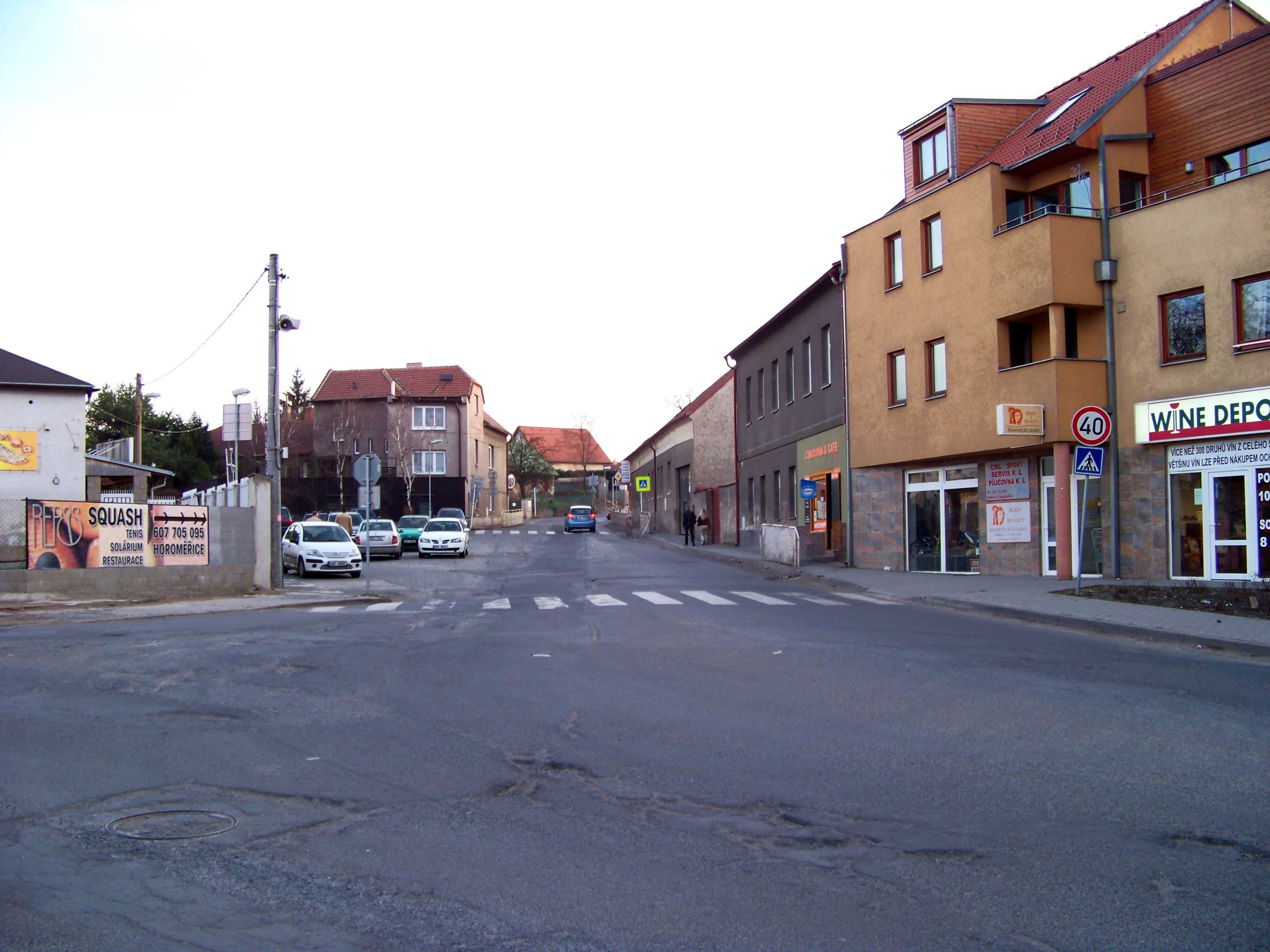 Horoměřice, Prague-West District, Central Bohemian Region, the Czech Republic. Hrdinů Street.